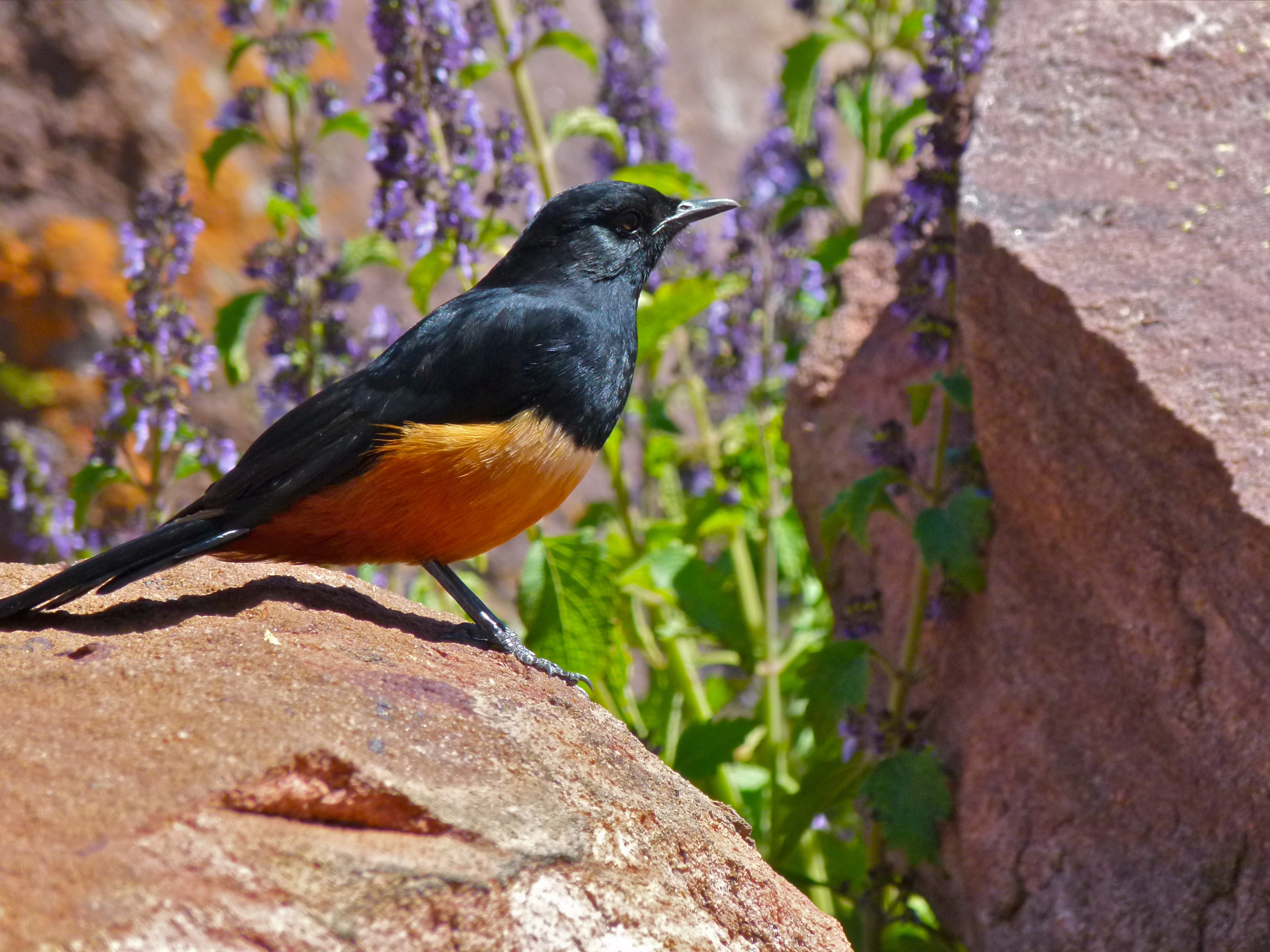 The Towers, Marakele NP, SOUTH AFRICA